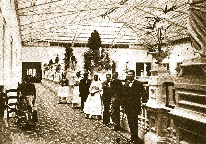 Black Porters and Maids at San Francisco's Palace Hotel, 1880's